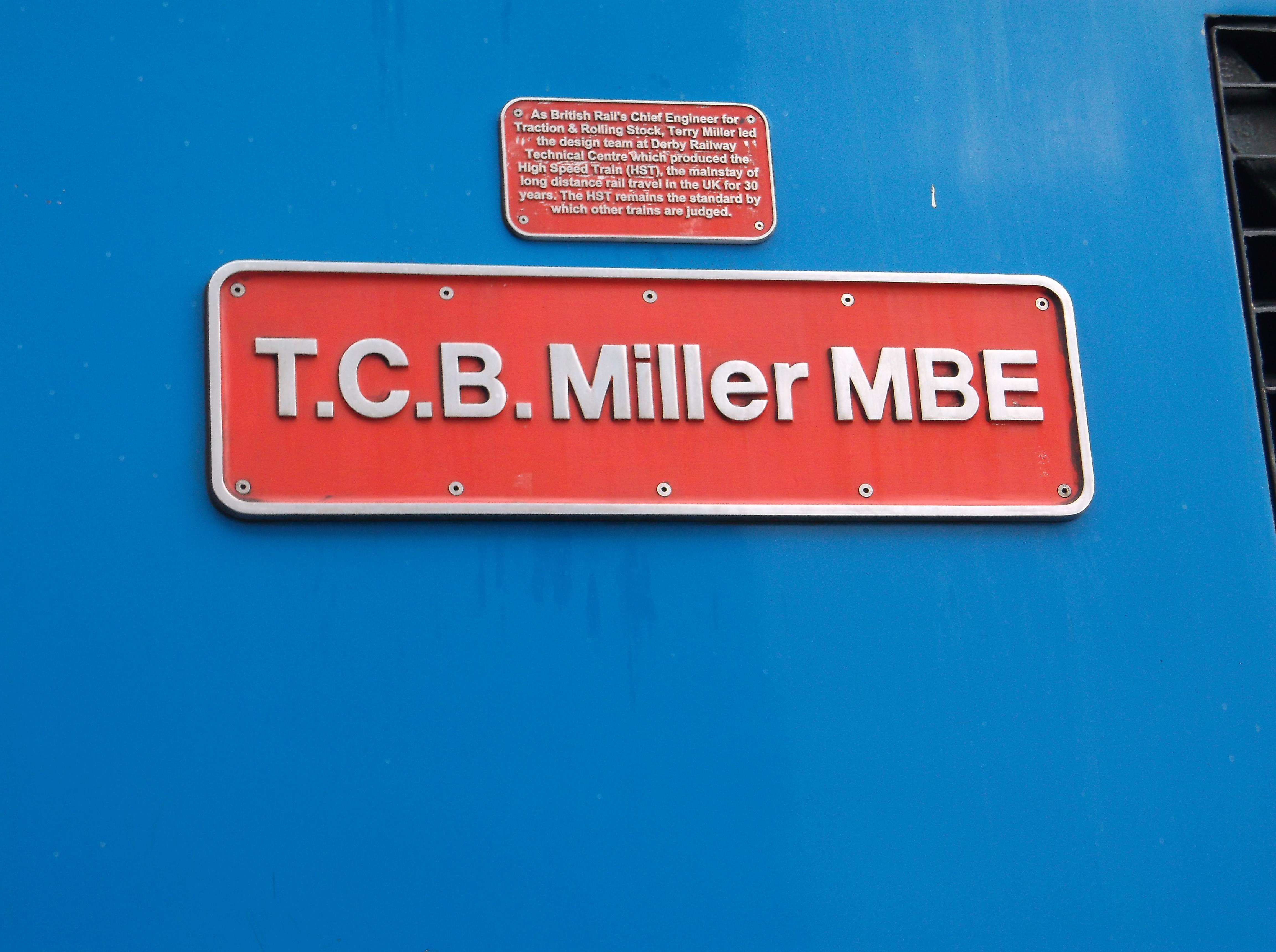 Nameplate on HST power car no. 43048 , named "T.C.B. Miller MBE" in honour of Terry Miller (engineer), who was instrumental in the design of the HST.